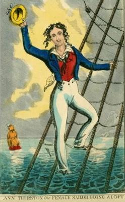 Engraving entitled ANN THORNTON the FEMALE SAILOR GOING ALOFT